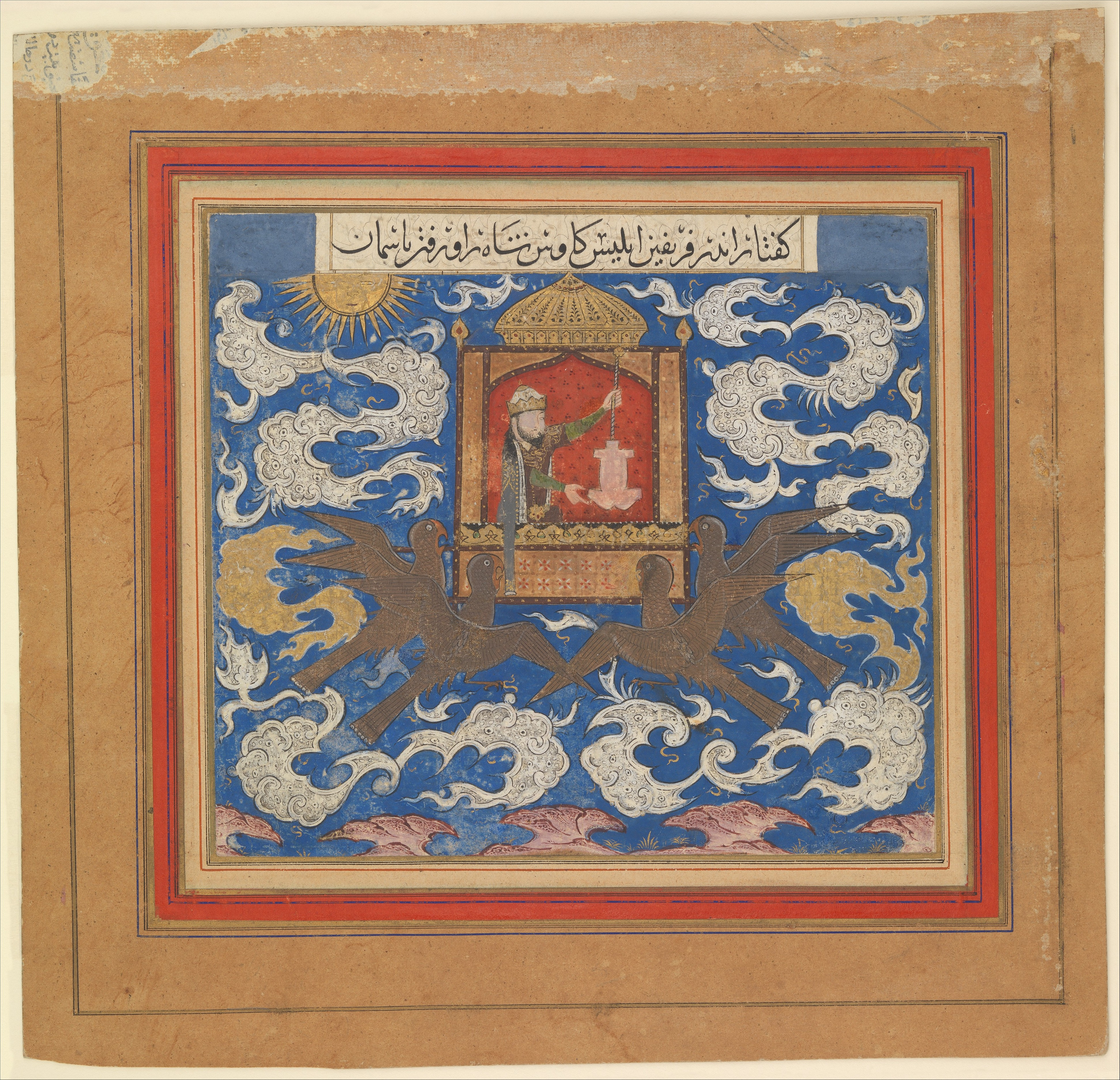 Folio from an illustrated manuscript; Codices